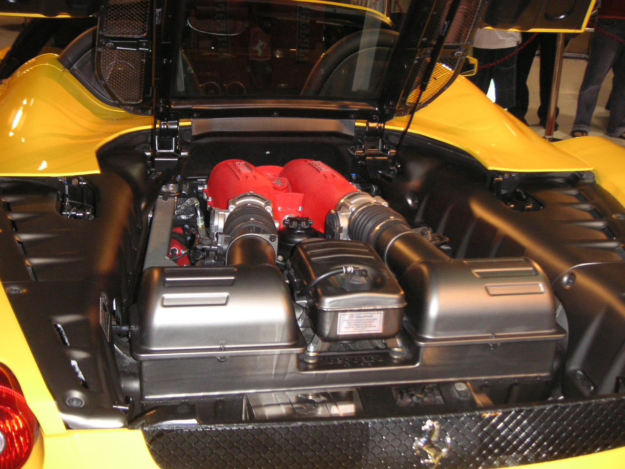 User's own picture. Ferrari 430 engine bay.